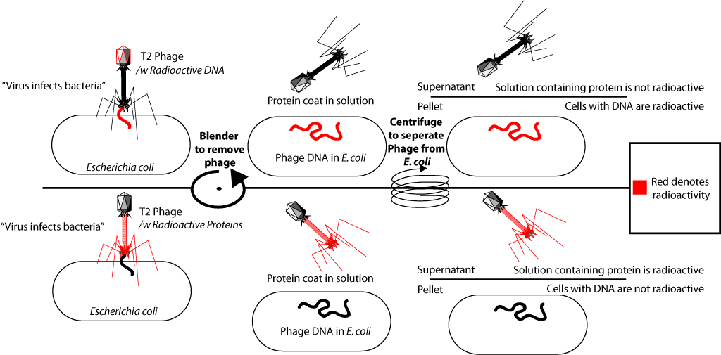 Overview of the experiment performed by Hershey & Chase, showing DNA to be the genetic material for phage